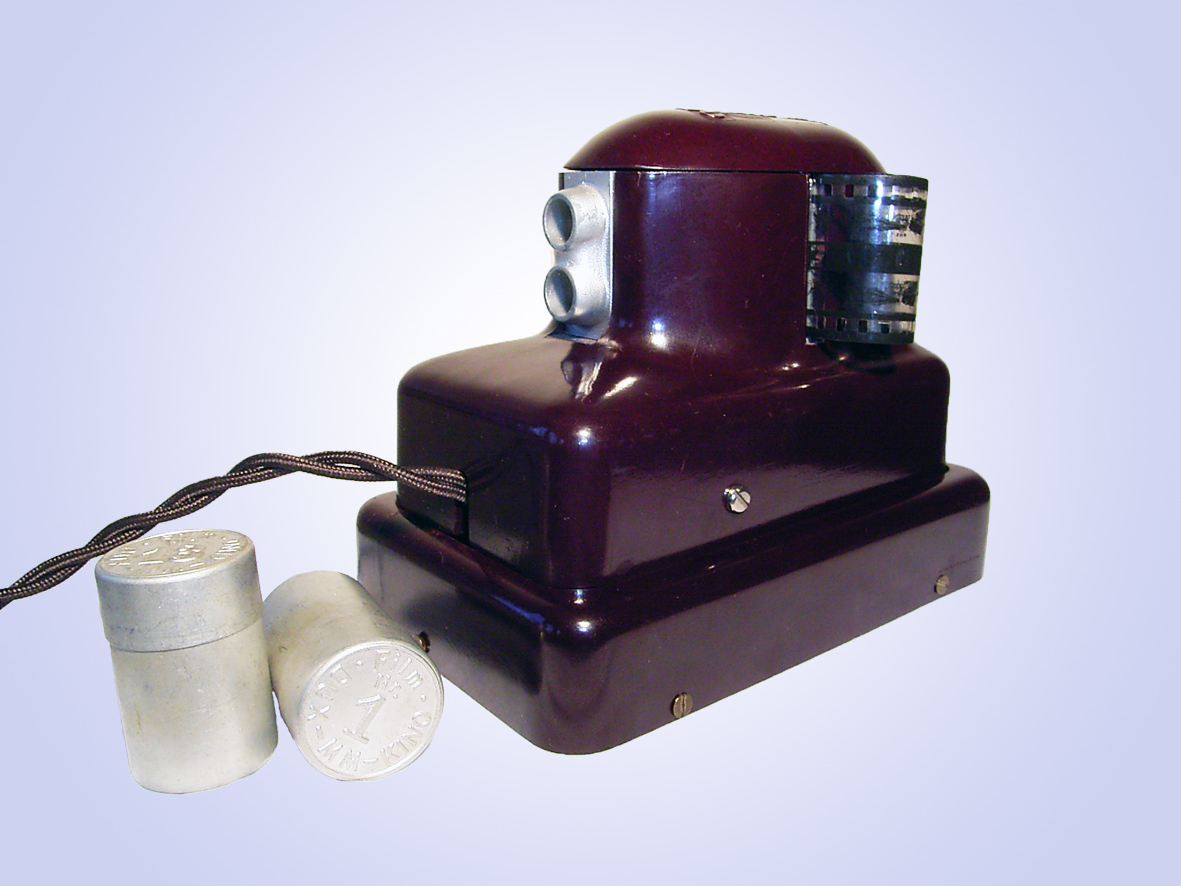 Dux Kino MM Motorized